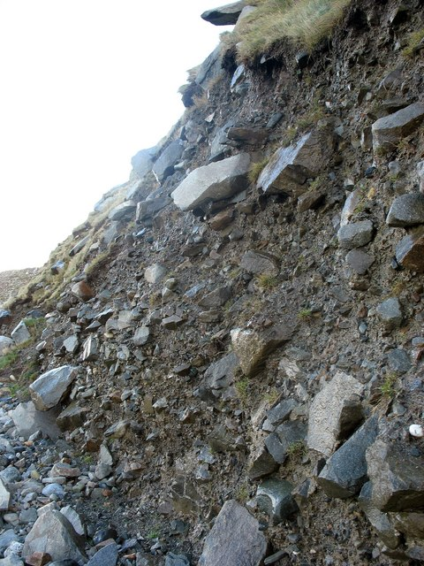 An eroded boulder clay cliff This photo shows clearly why these glacial deposits are called boulder clay, consisting as they are of clay and stones of various sizes up to and including large boulders. Till is another name for boulder clay.